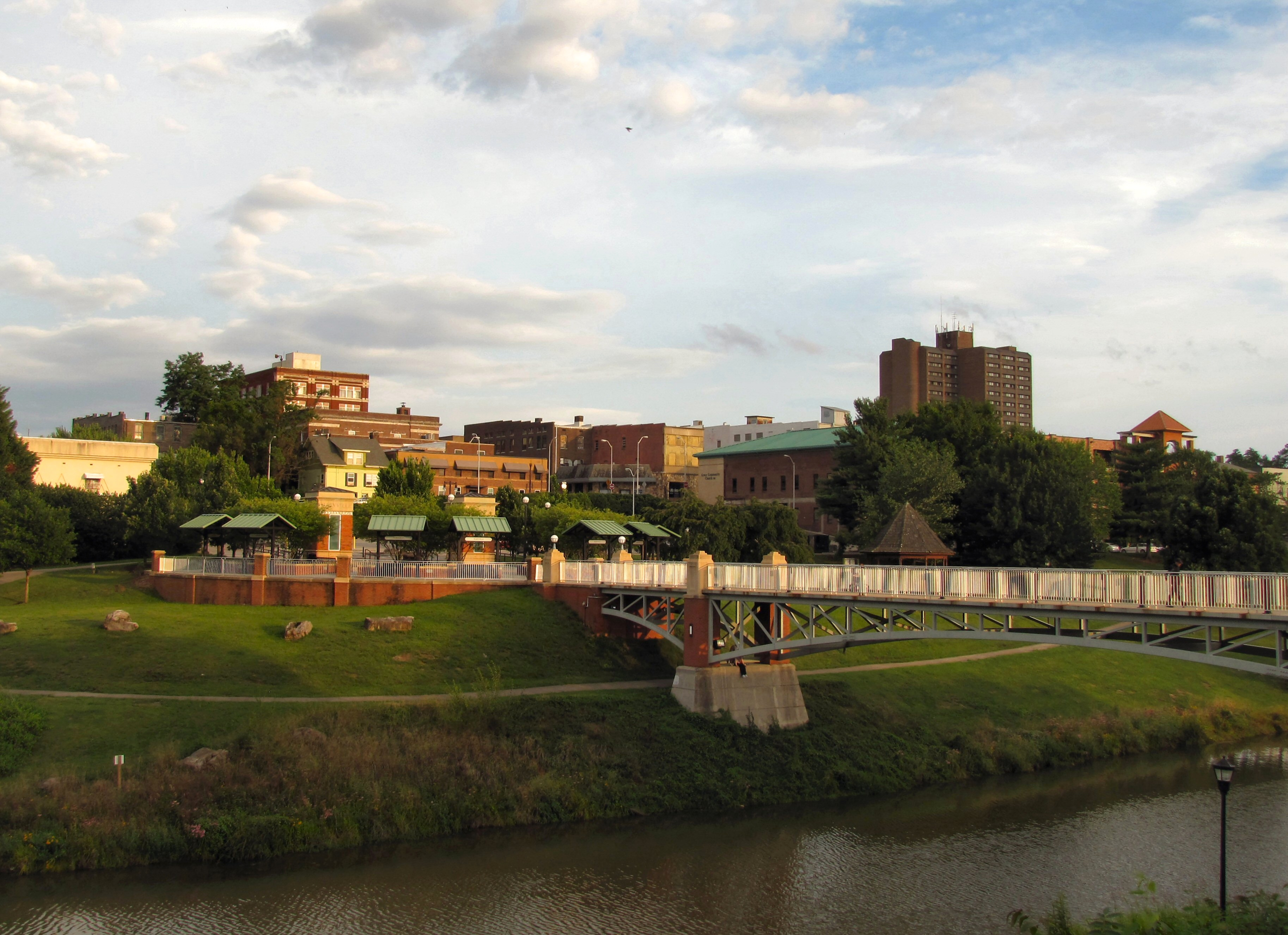 Maryville, Tennessee, viewed from the Blount County Library. Greenbelt Lake (Pistol Creek) is below.